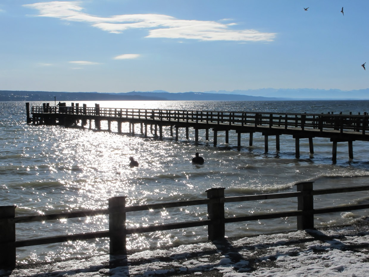 Schondorf am Ammersee, Landing Stage at Lake Ammersee church "St.Anna", Inside